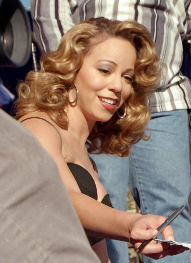 Mariah Carey at Edwards Air Force Base in Dec. 1998. Mariah Carey works her way into the audience to sign autographs for fans. She is helped by her bodyguard and SMSgt. Louis DeMonte, 95th Security Forces Squadron superintendent of operations. Her video "I Still Believe" was taped on Dec. 11 and 12, 1998, at Edwards Air Force Base.